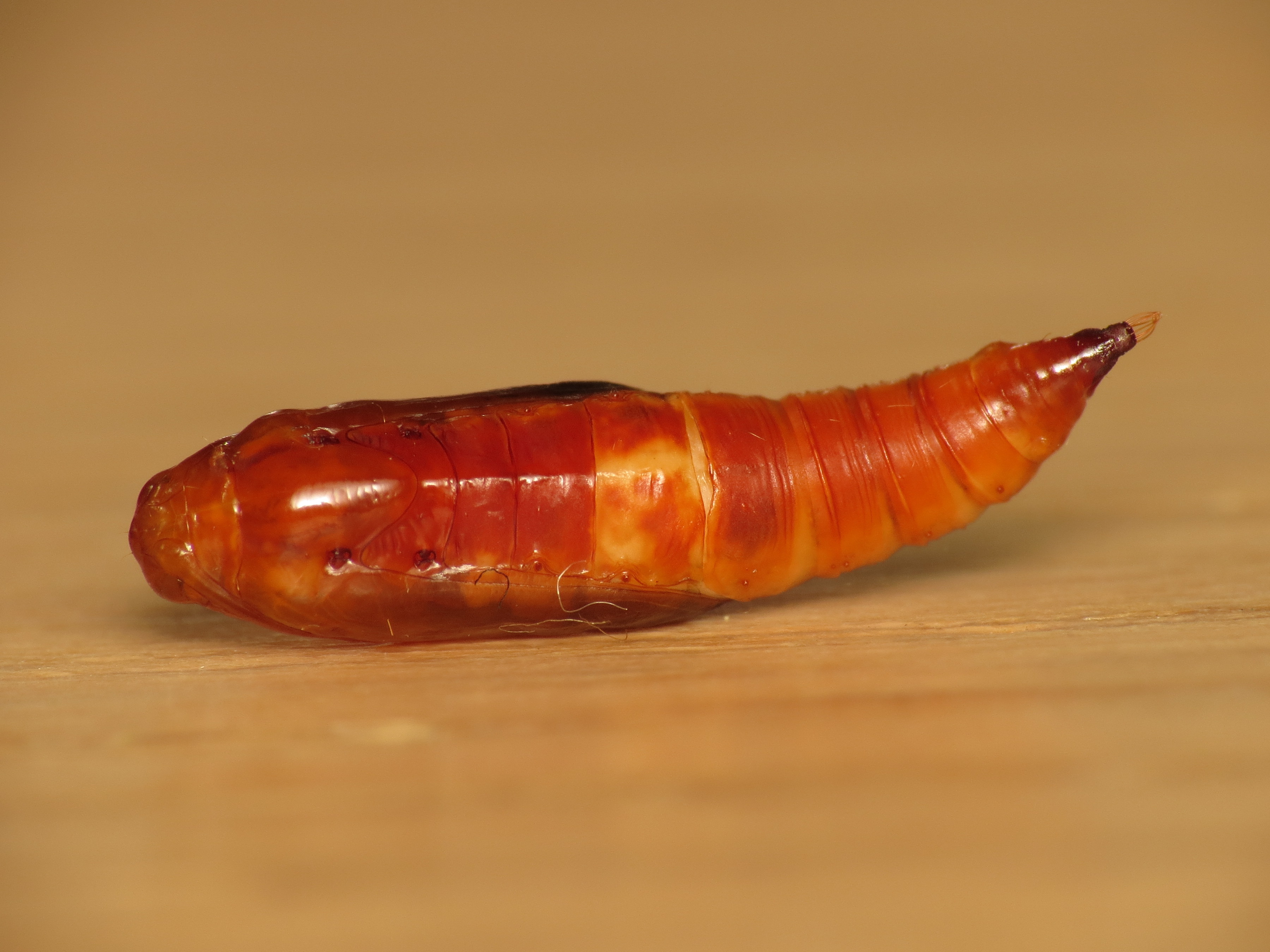 Udea prunalis ([Denis & Schiffermüller], 1775), pupa, 24 May 2014, from larva found on Ulmus glabra Huds., Søborg, Denmark, 17 May 2014